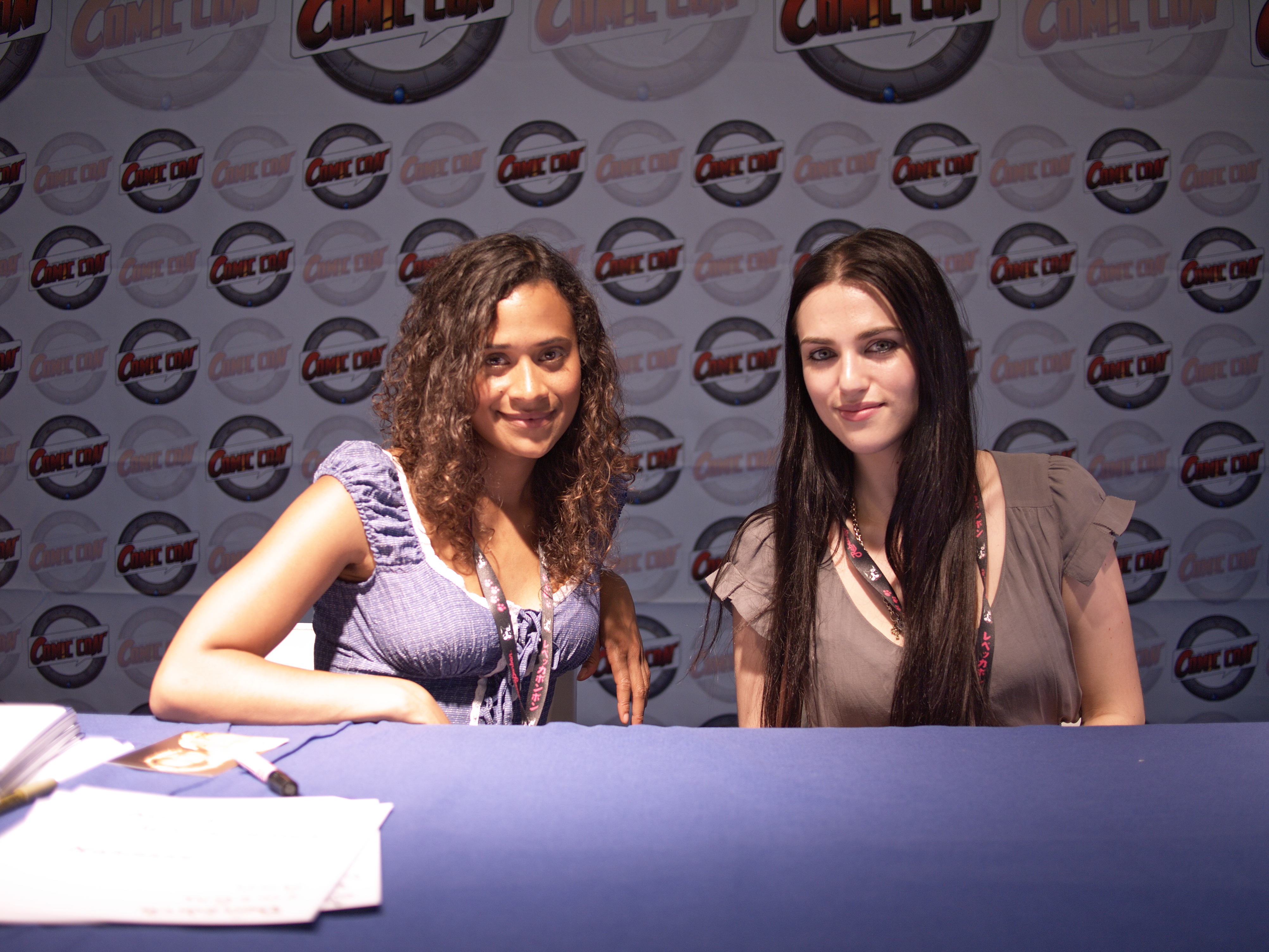 Japan Expo Festival, 11th impact